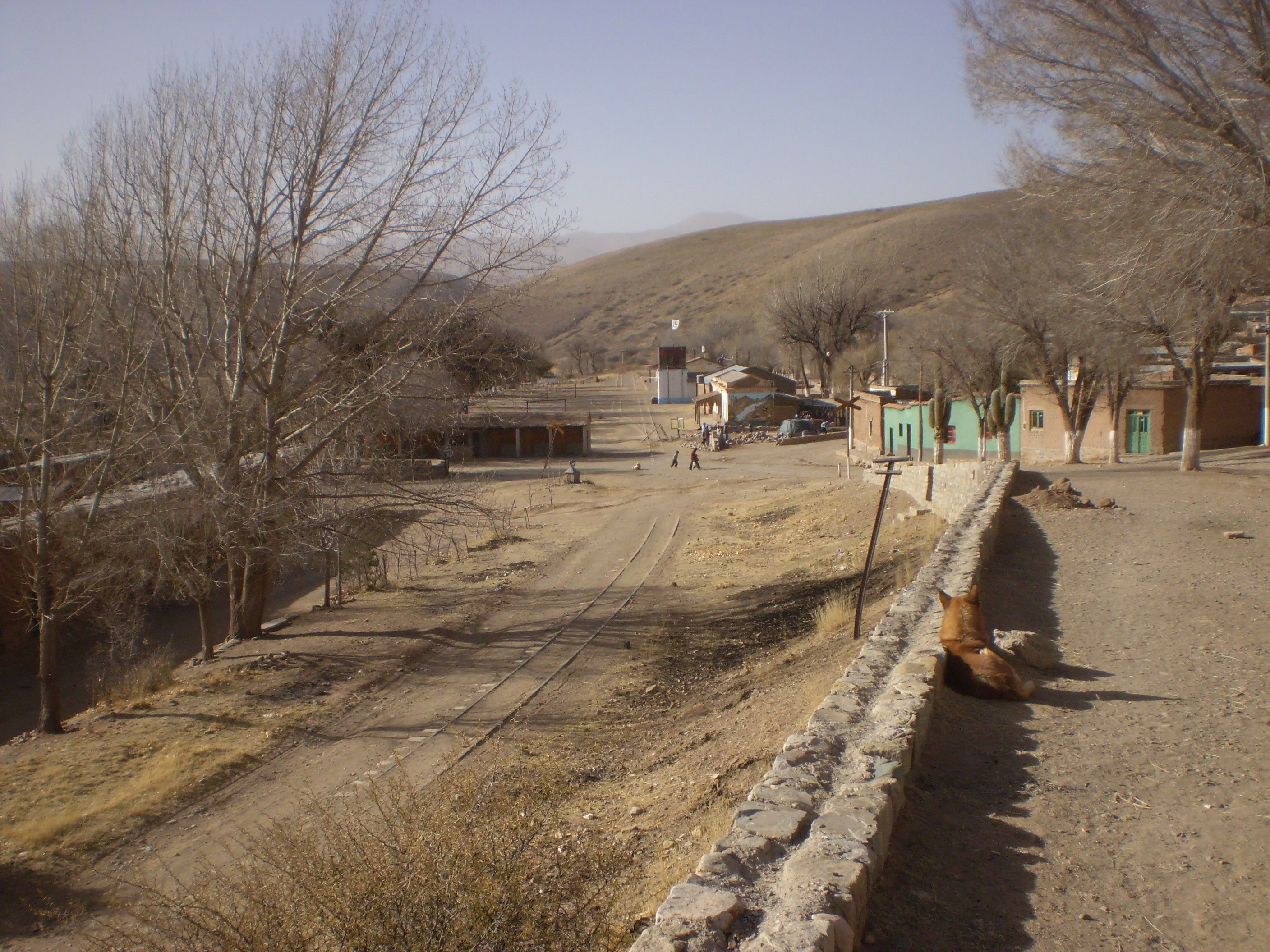 Iturbe, Jujuy, Argentina